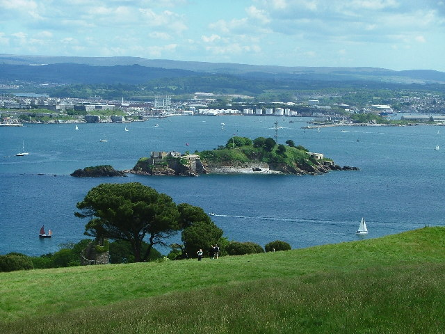 Drake's Island. Looking down onto Drake's Island from Mount Edgecumbe Country Park.